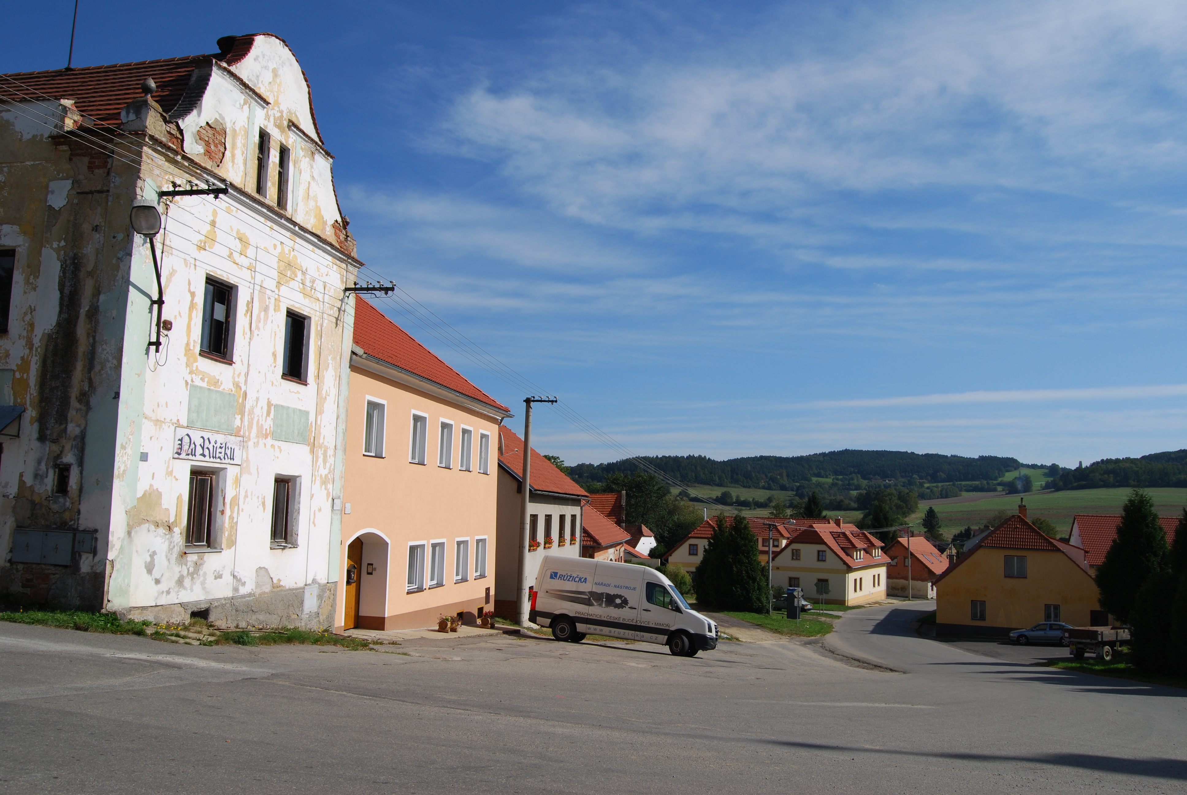 Vitějovice village in Prachatice District, Czech Republic.